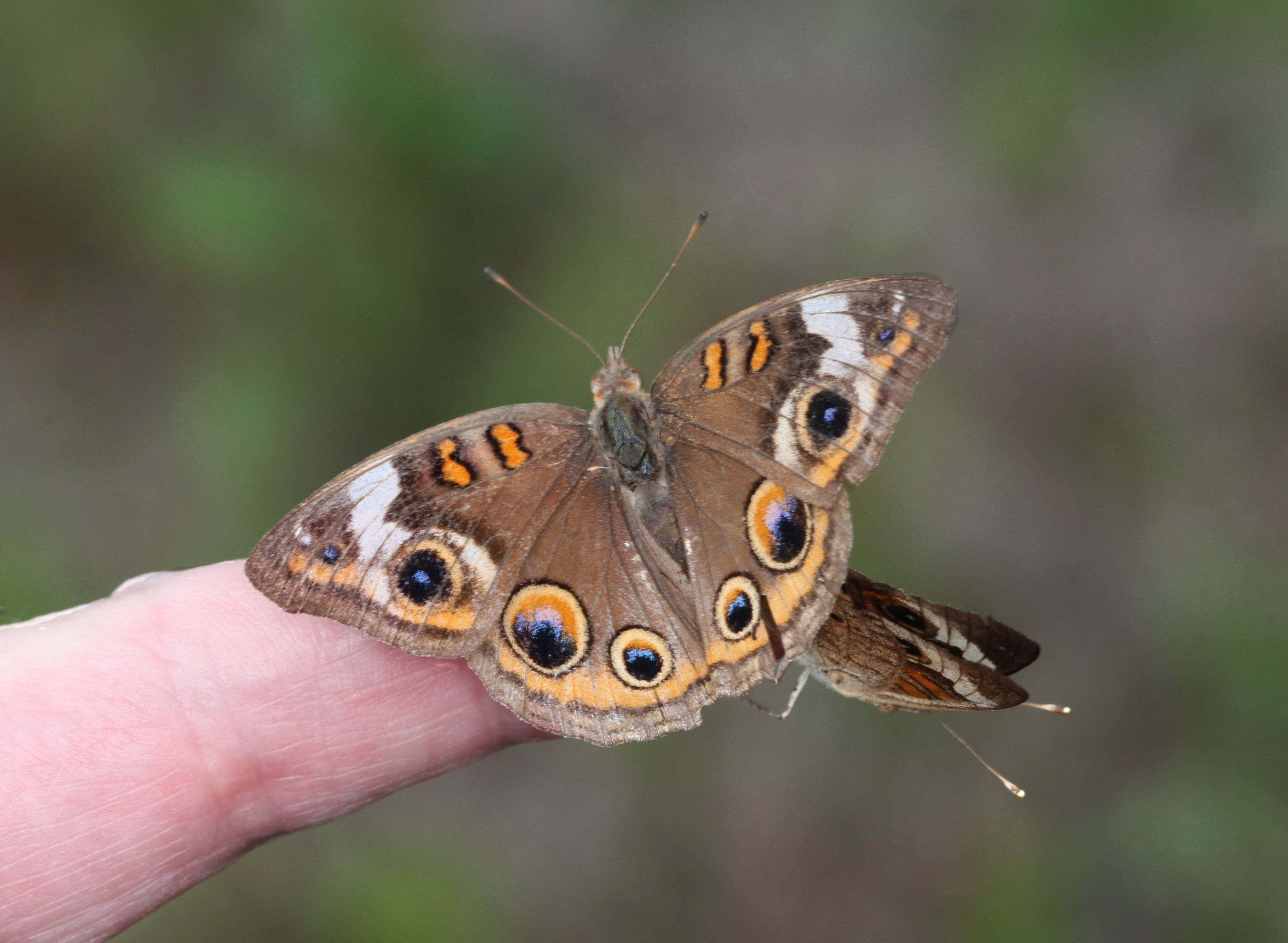 These two lovebirds were flying around the front of my house. I reached down and the (female?) calmly stepped onto my finger for a photo-op.